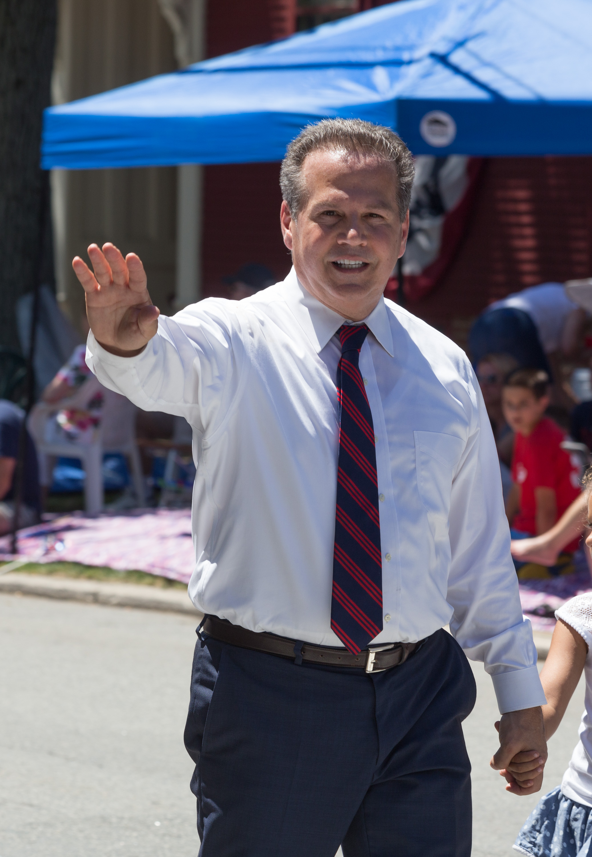 RI Congressman David Cicilline marches in the Bristol Fourth of July Parade 2017